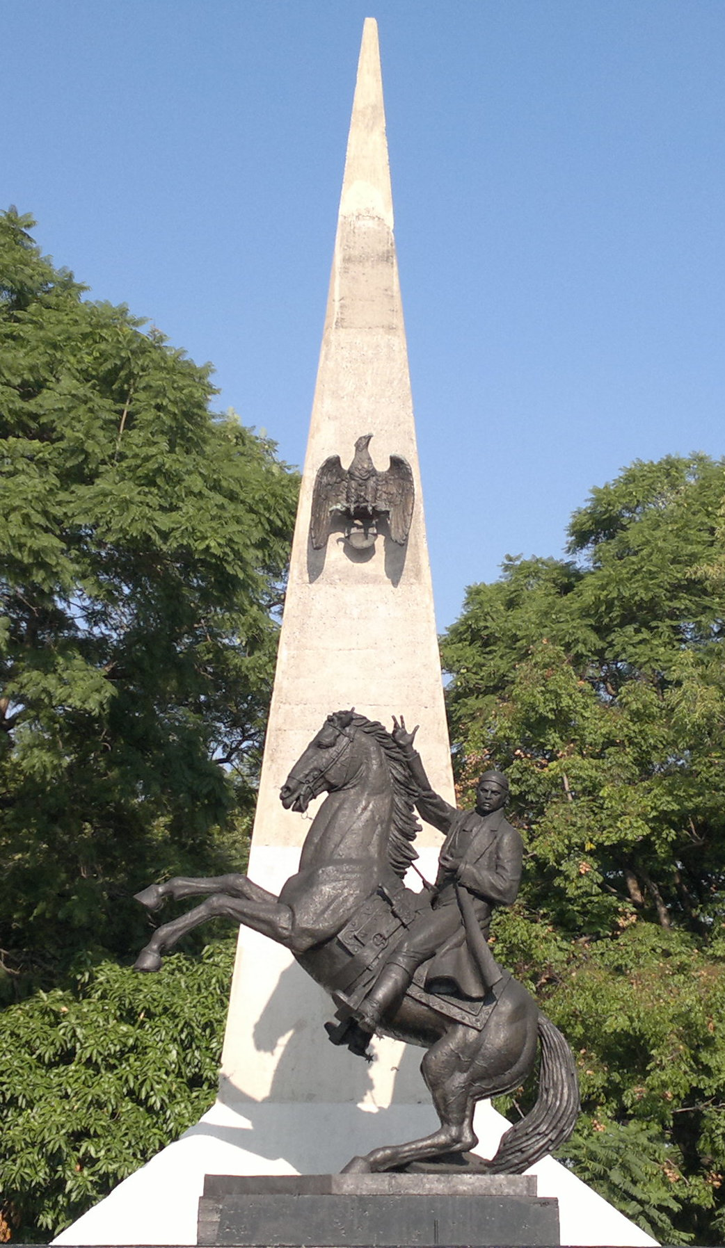 Monument to the general Dom José Maria Morelos y Pavón in Morelos Park, in La Mesa, Baja California, Mexico